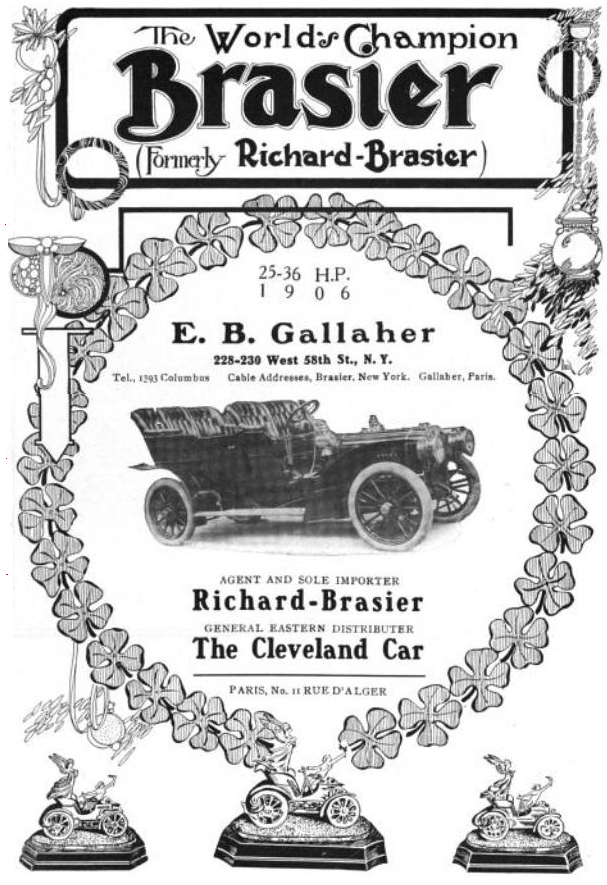 Richard-Brasier - 1906